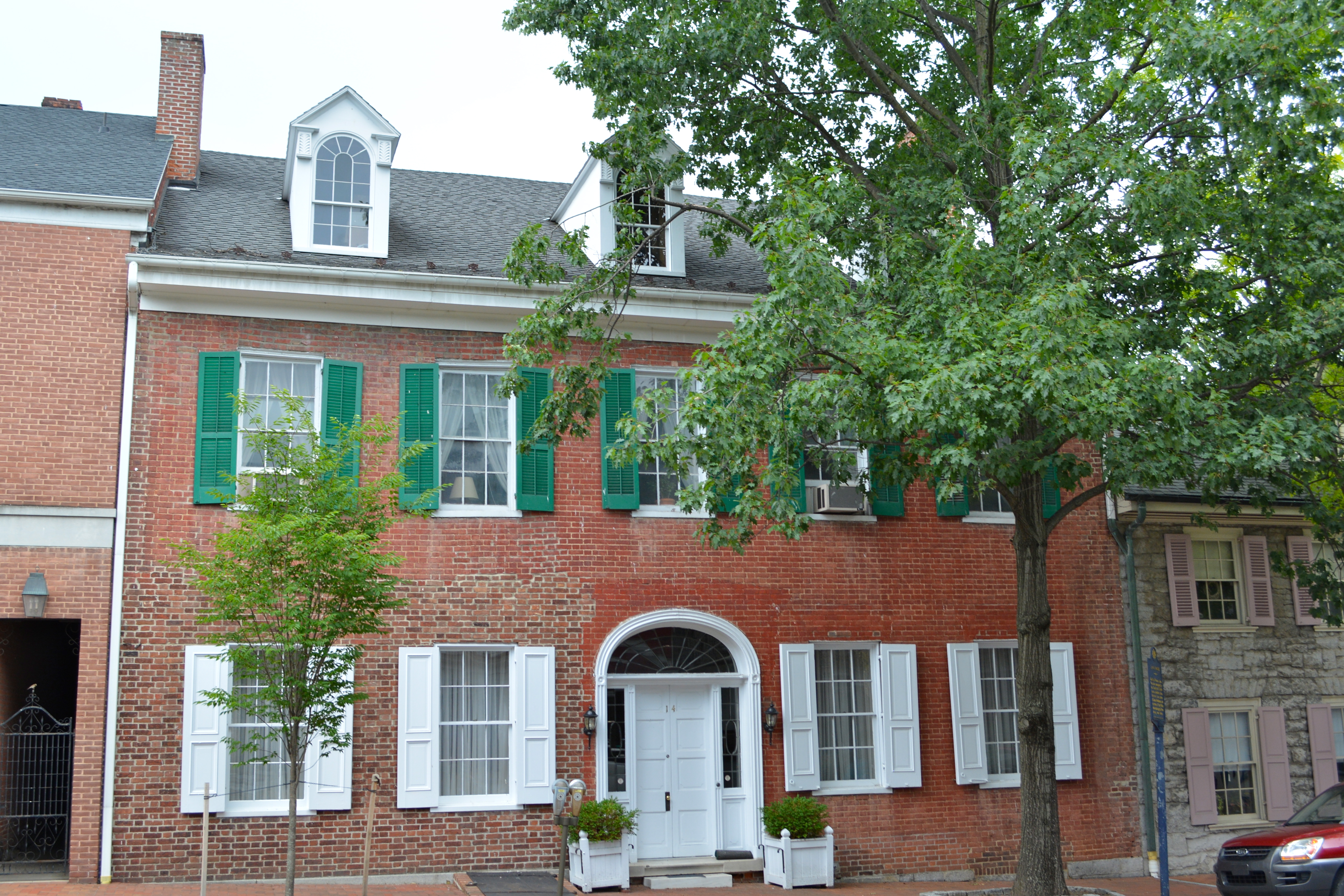 Lane House listed on the NRHP on January 13, 1972 (#72001123) At 14 North Main Street, next to the library, Mercersburg, Franklin County, Pennsylvania. Also part of the Mercersburg Historic Distrct.